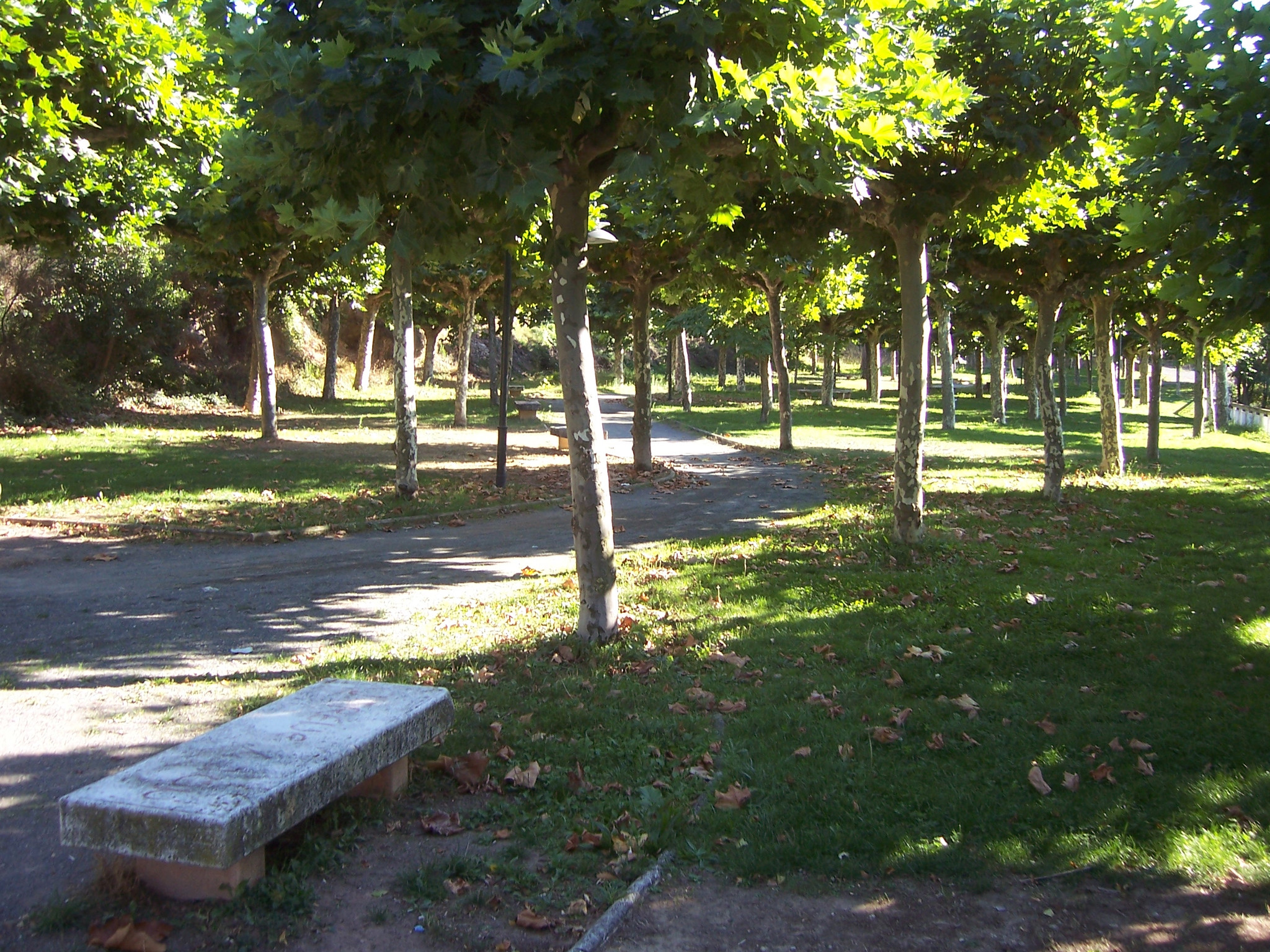 "Vista Alegre" park. Haro, La Rioja (Spain)